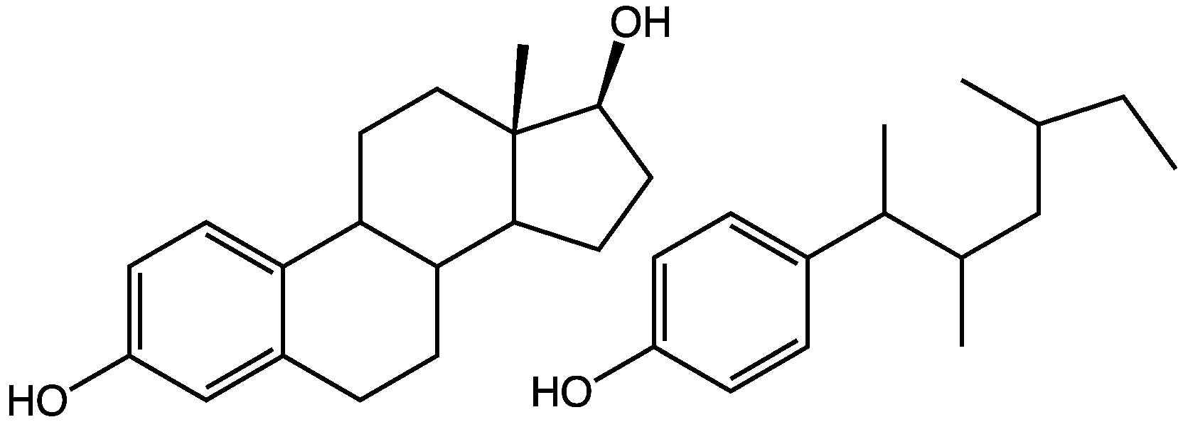 comparison of estradiol and nonylphenol